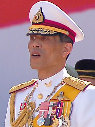 Maha Vajiralongkorn at the 50th Mederka National Day celebrations